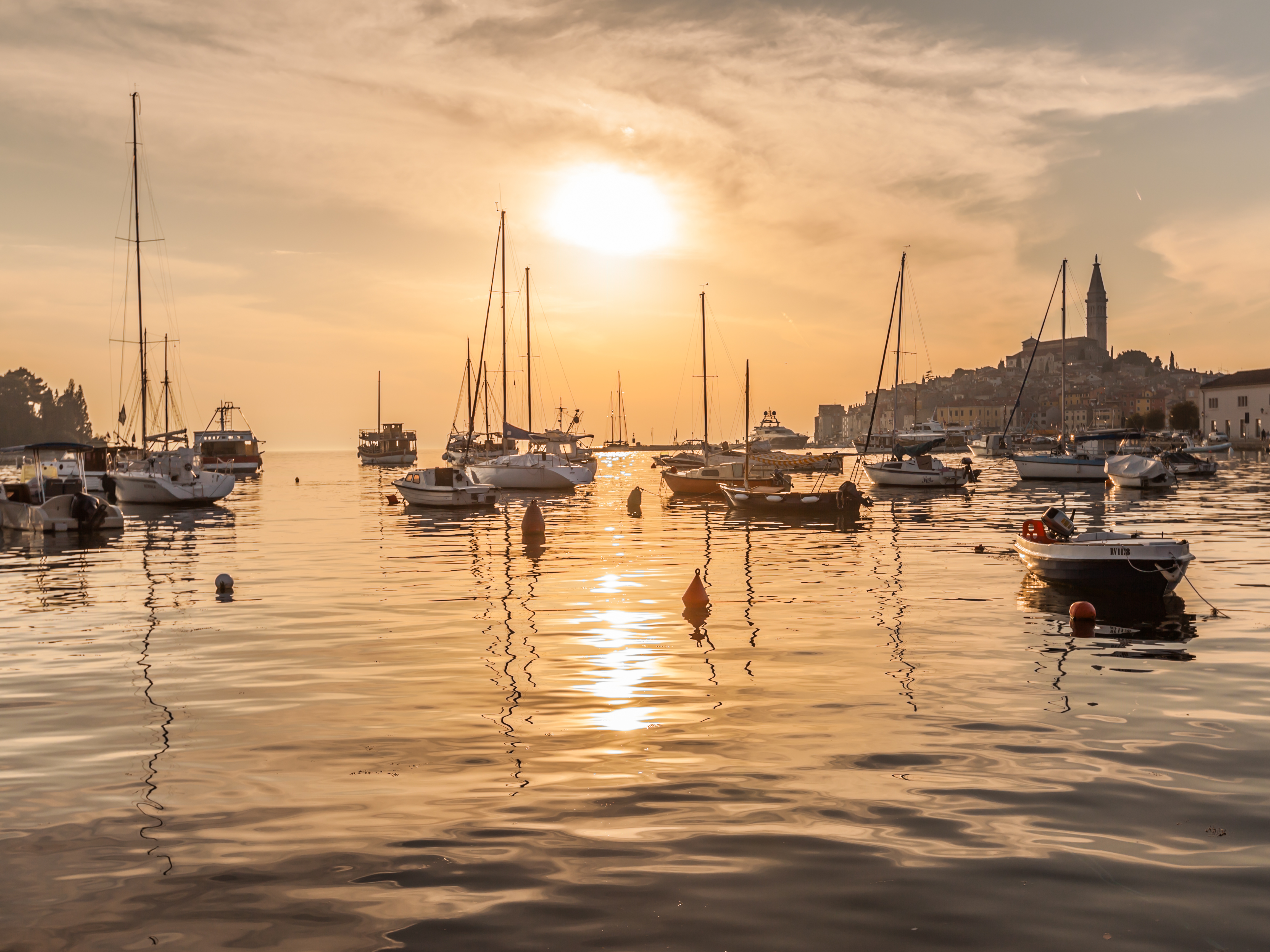 Cityscape of Rovinj at sunset.